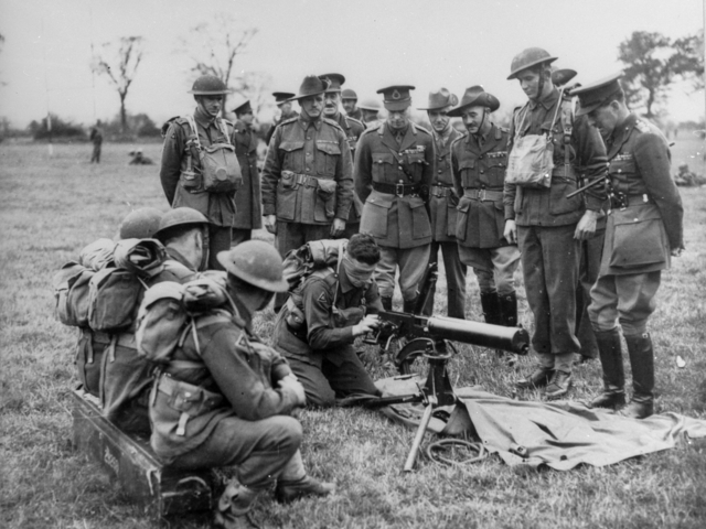 A.I.F. IN ENGLAND: THE KING VISITS THE AUSTRALIAN TROOPS IN THE EASTERN COMMAND. HIS MAJESTY WATCHING WITH INTEREST AN AUSTRALIAN SOLDIER ASSEMBLING A VICKERS GUN WHILE BLINDFOLDED.